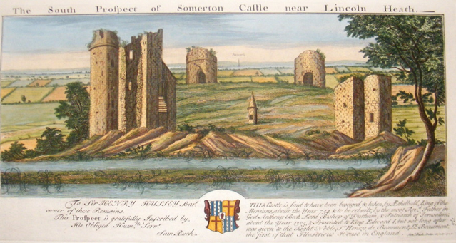 The ruins of Somerton Castle, Lincolnshire, in 1726, by Samuel and Nathaniel Buck